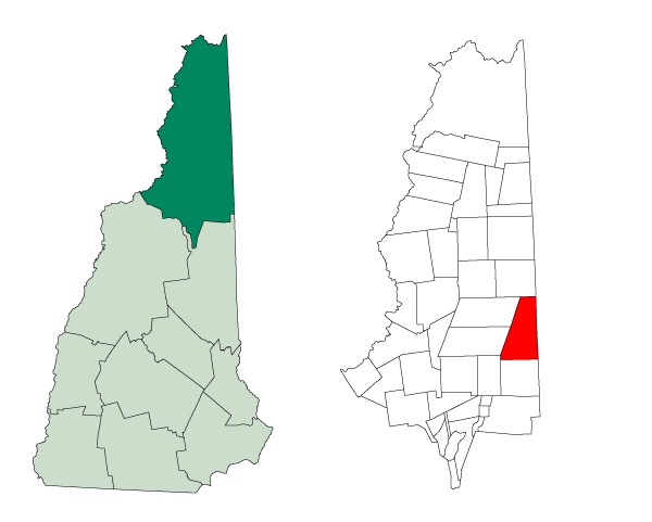 Map of a municipality in Coos County, New Hampshire